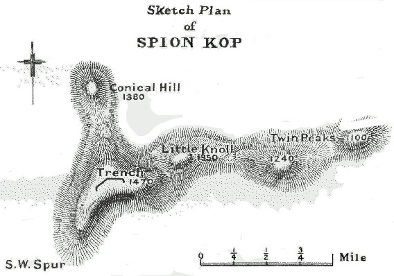 Sketch map showing the situation of the Battle of Spion Kop, 23-24 January 1900